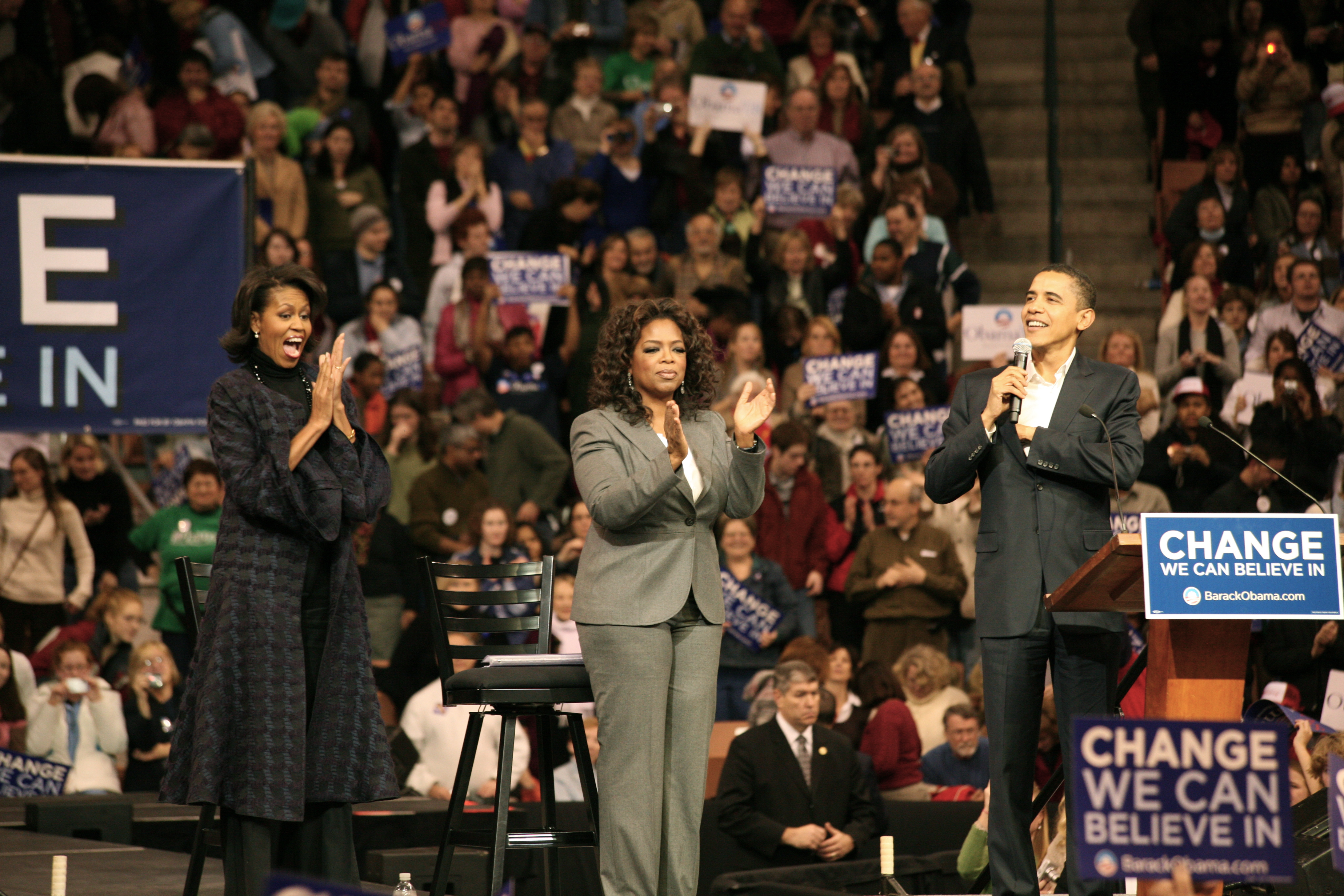 Michelle Obama, Oprah Winfrey and Barack Obama at a rally